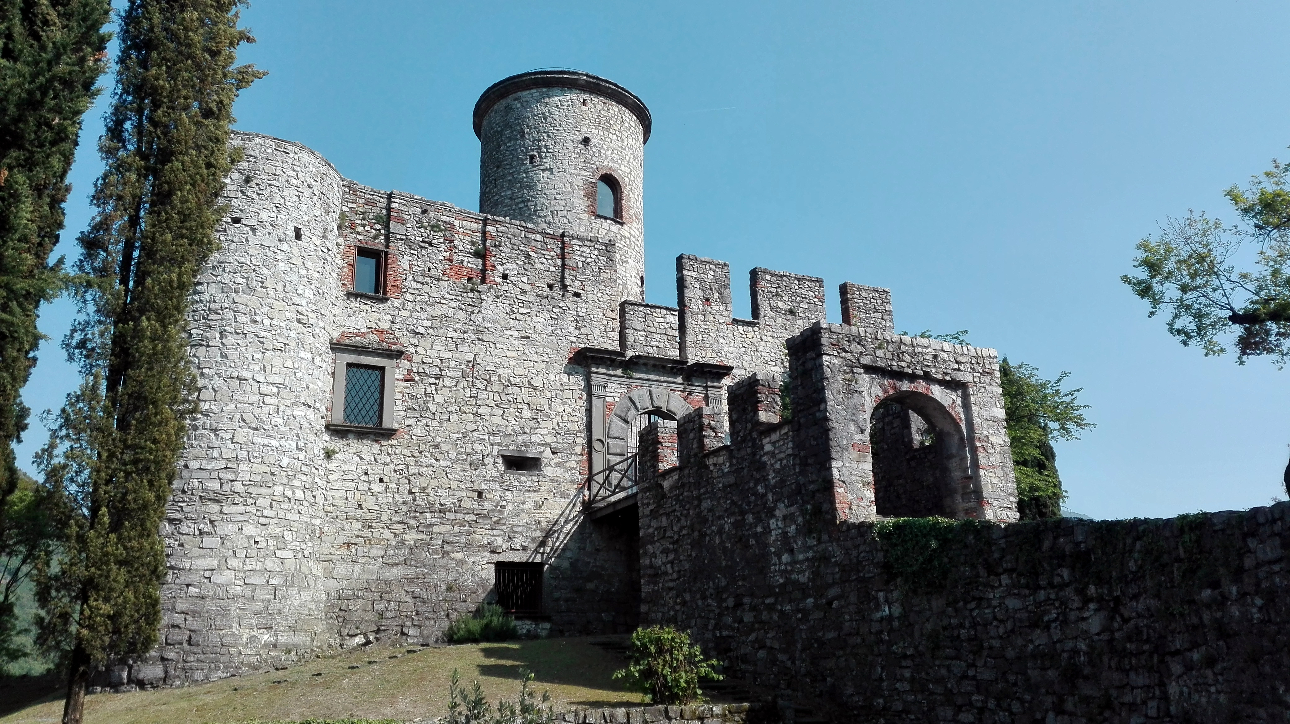 Castle Oldofredi-Martinengo, Monte Isola